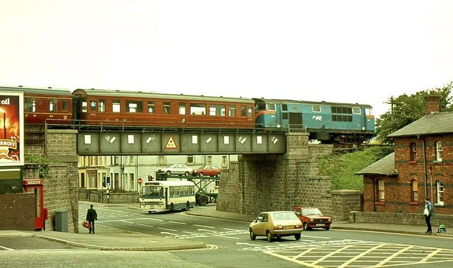 Charter train, Ballymena In 1983 the Belfast Chamber of Commerce arranged a special train to commemorate its bicentenary. The train, composed of a NIR locomotive hauling preserved carriages is seen crossing the Galgorm Road at Ballymena station.